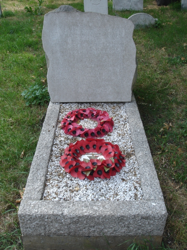 Grave of Joseph John Farmer at Brompton Cemetery.